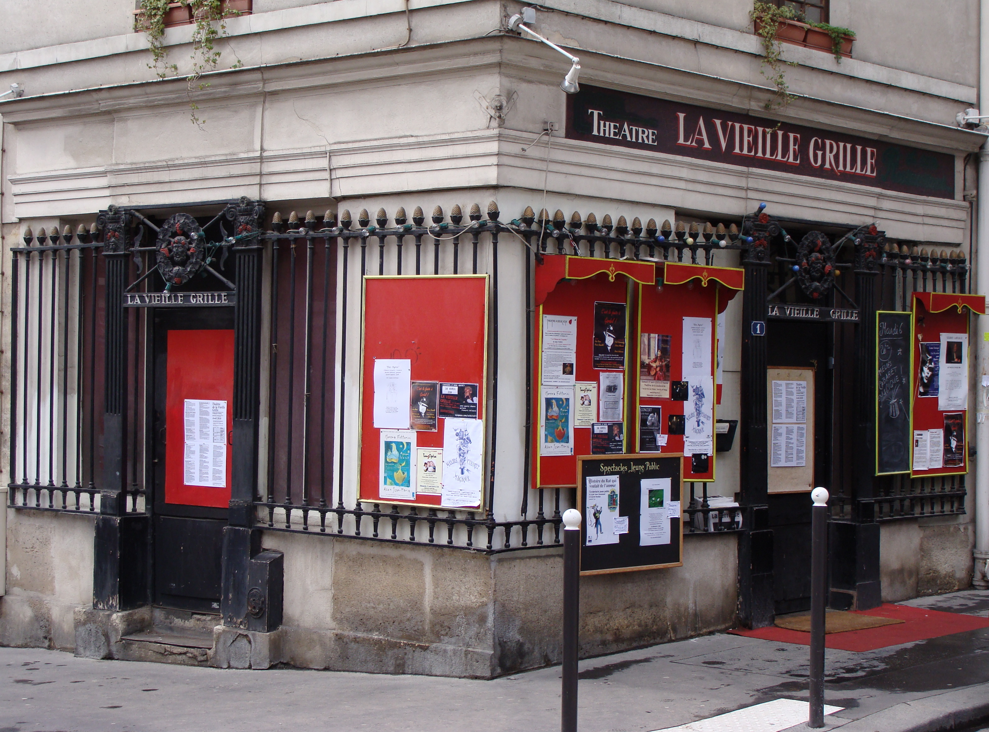 an old small theater in Paris